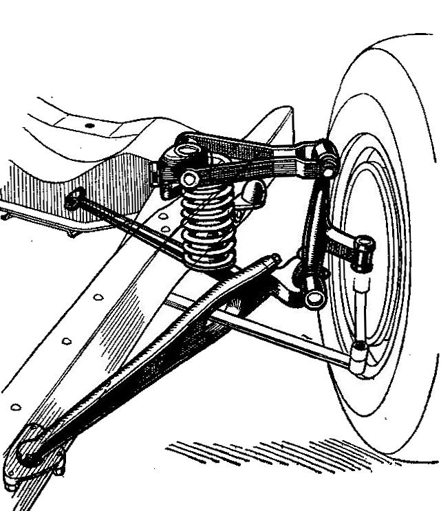 Packard wishbone front suspension (Autocar Handbook, 13th ed, 1935).jpg